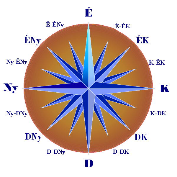 Compass rose with Hungarian abbreviations - Égtájak magyarul